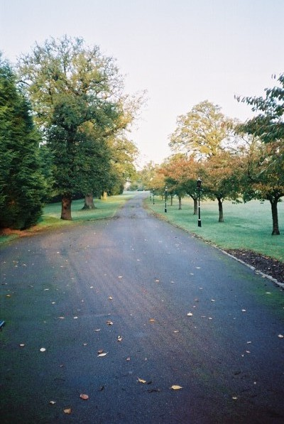 The entrance to Warfield Hall. Next to the junction of the B3034 and the A3095.